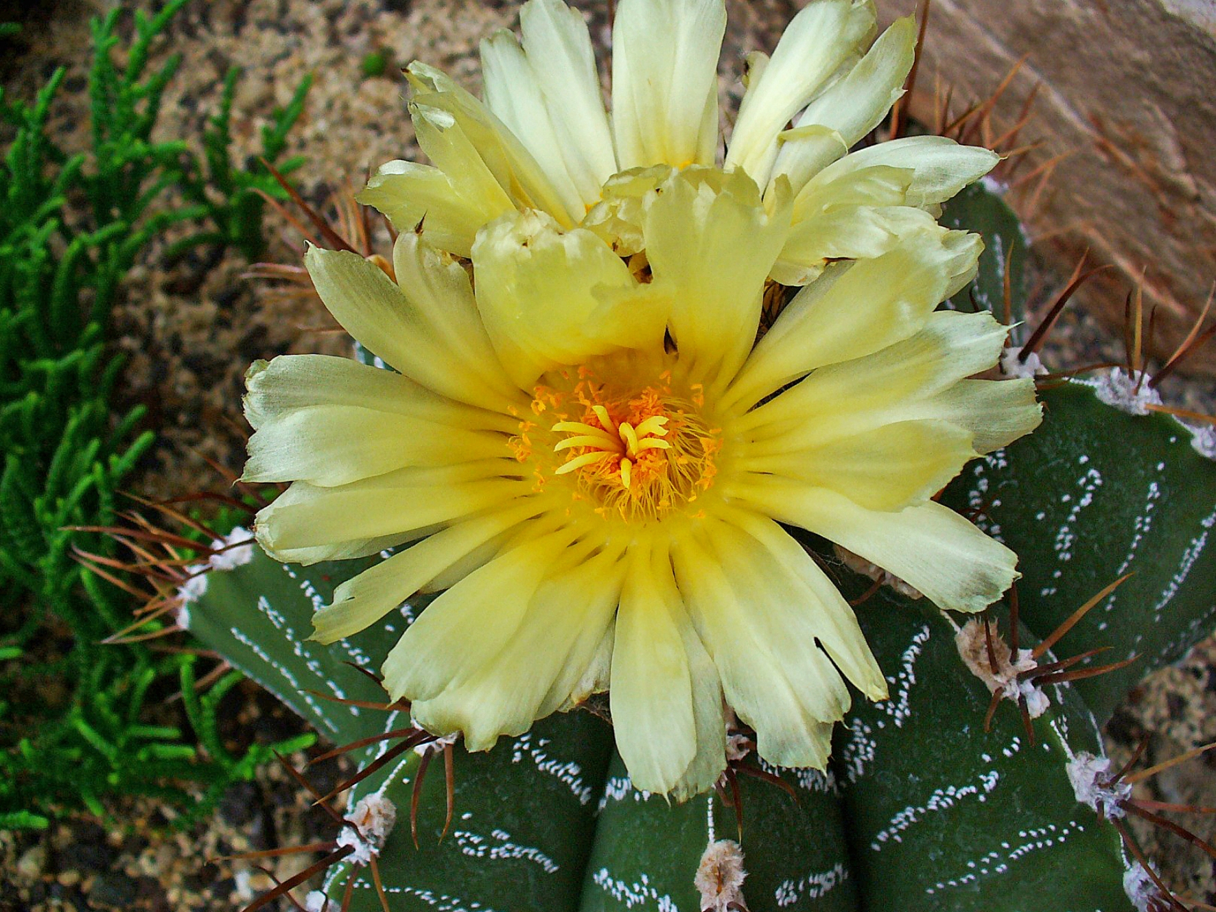 Astrophytum ornatum, Cactaceae, Monk’s Hood, flower; Botanical Garden KIT, Karlsruhe, Germany.